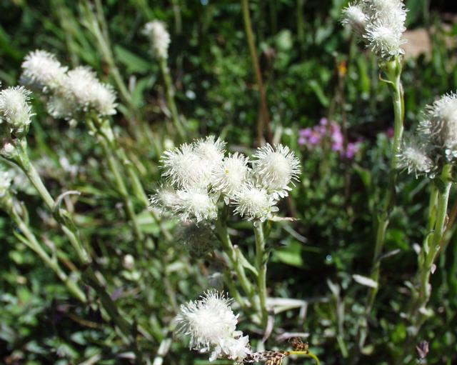 (en) Antennaria dioica, a photography originating of the internet site The accord of the autor, H. Brisse, is here. (fr) Antennaria dioica, une photographie issue du site internet L'accord de l'auteur, H. Brisse, se situe ici.